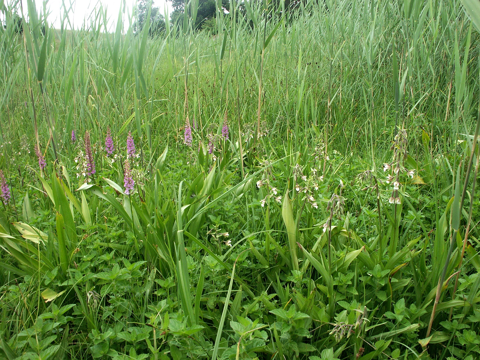 Epipactis palustris and Gymnadenia conopsea, southern Frankenhöhe, Germany